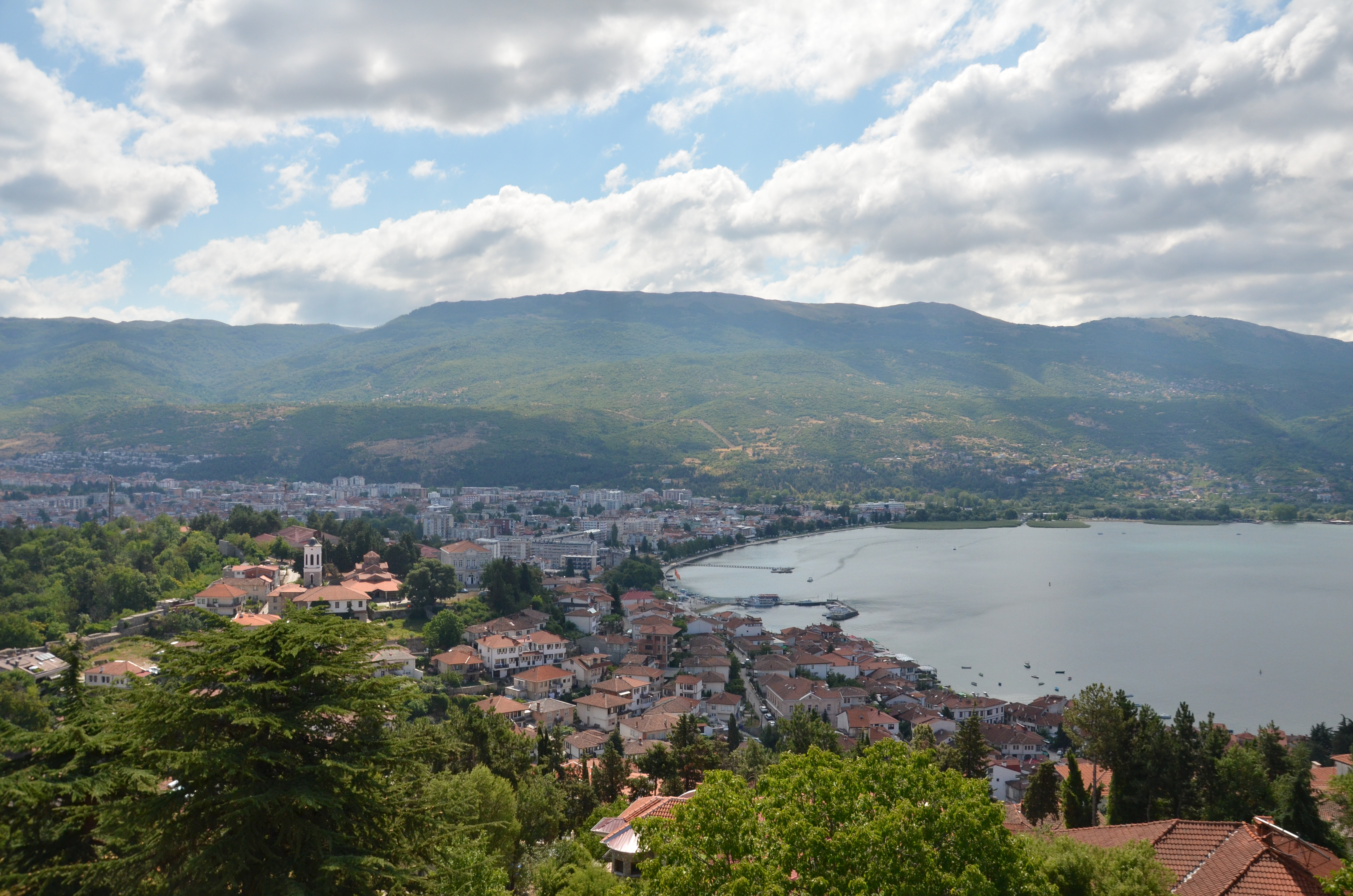 View from Samuel's Fortress, Ohrid. Macedonia, July 2017